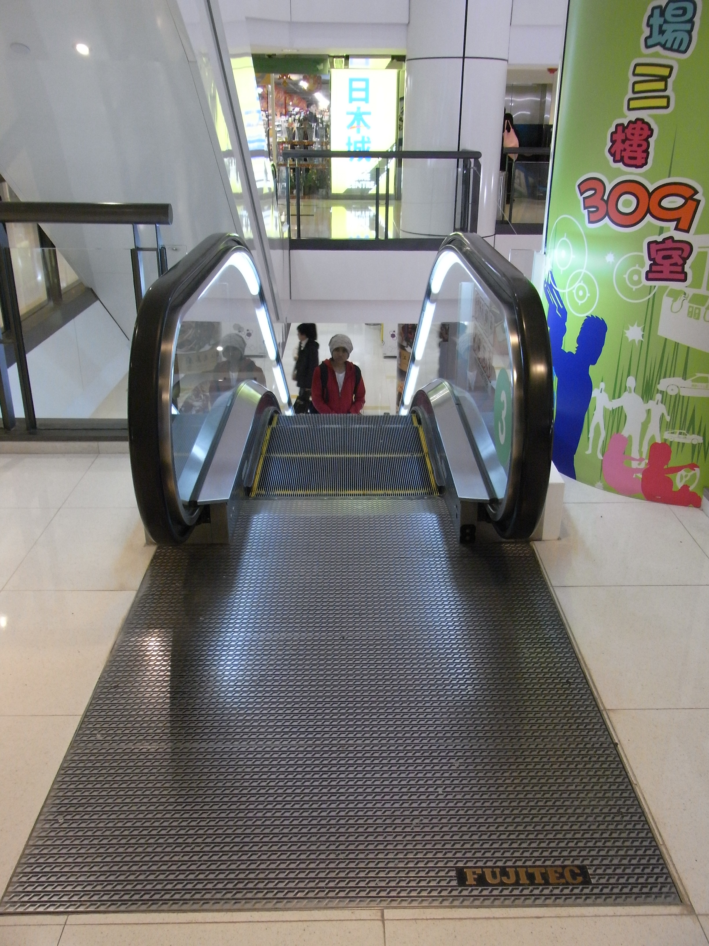 香港九龍城廣場